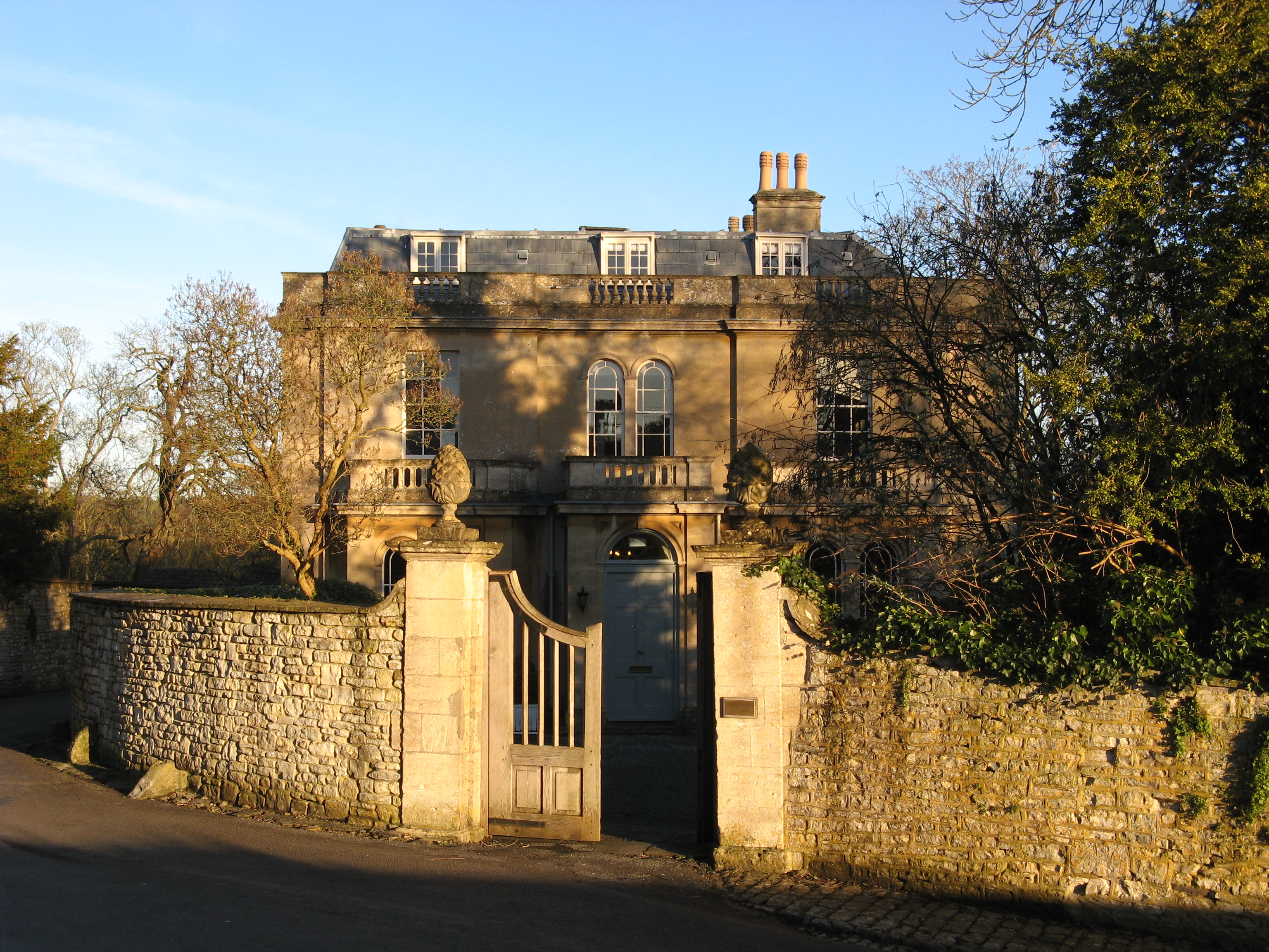 Duchy of Cornwall office in The Old Rectory, Newton St Loe, Bath and North East Somerset, which is a Grade II listed building.[1] The Duchy of Cornwall website description is: "The largest [Rural Portfolio] office is that at Newton St. Loe, near Bath. Not only is this the headquarters of the Eastern District, which covers the estates in Somerset, Dorset, Wiltshire, Gloucestershire and Herefordshire, but it is also home to centralised finance and property services teams, and the Estate Surveyor who manages the commercial property portfolio, the development sites, and the Kennington estate."